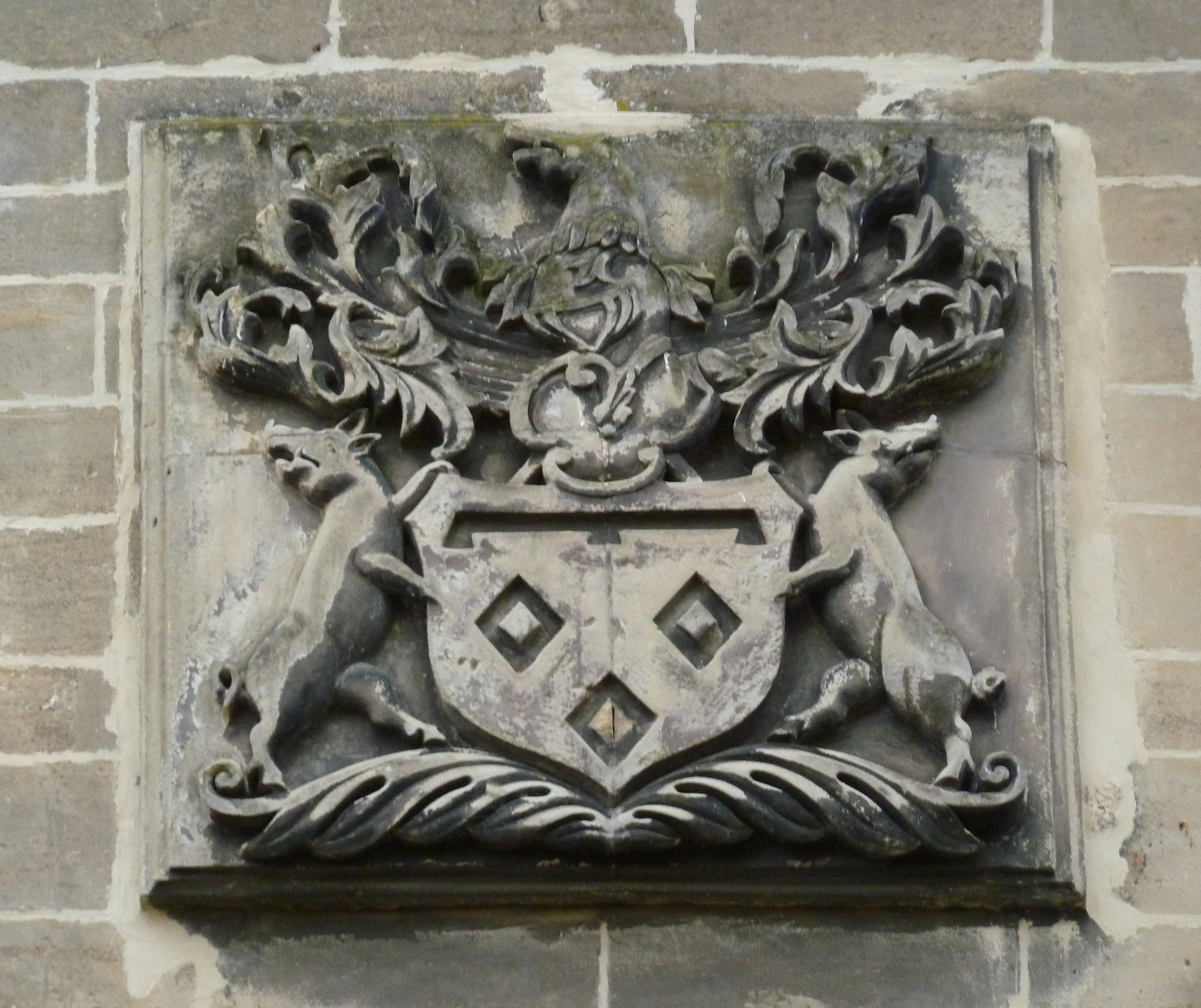 Castle Haeren, Voerendaal, Limburg, the Netherlands